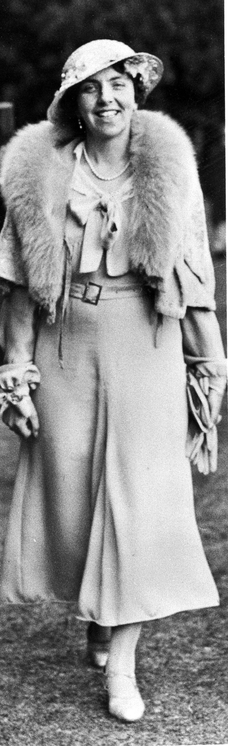 National Birthday Trust Fund Photograph of Juliet Rhys William (?) Archives & Manuscripts